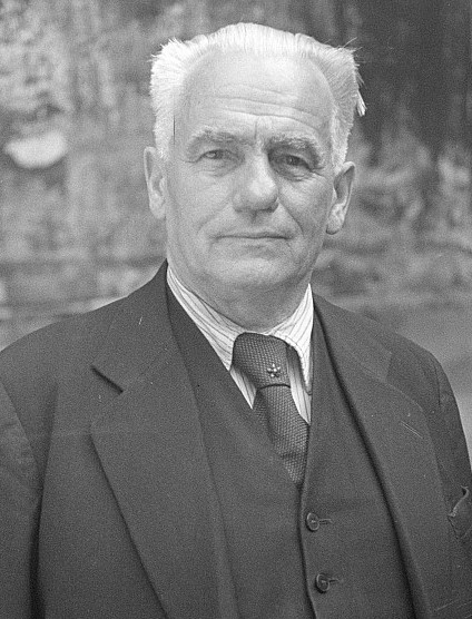 Cropped photograph of East German President, Wilhelm Pieck